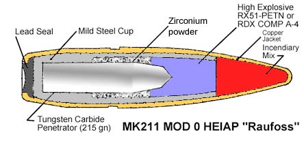 Made it myself therefore no copyright. Based on